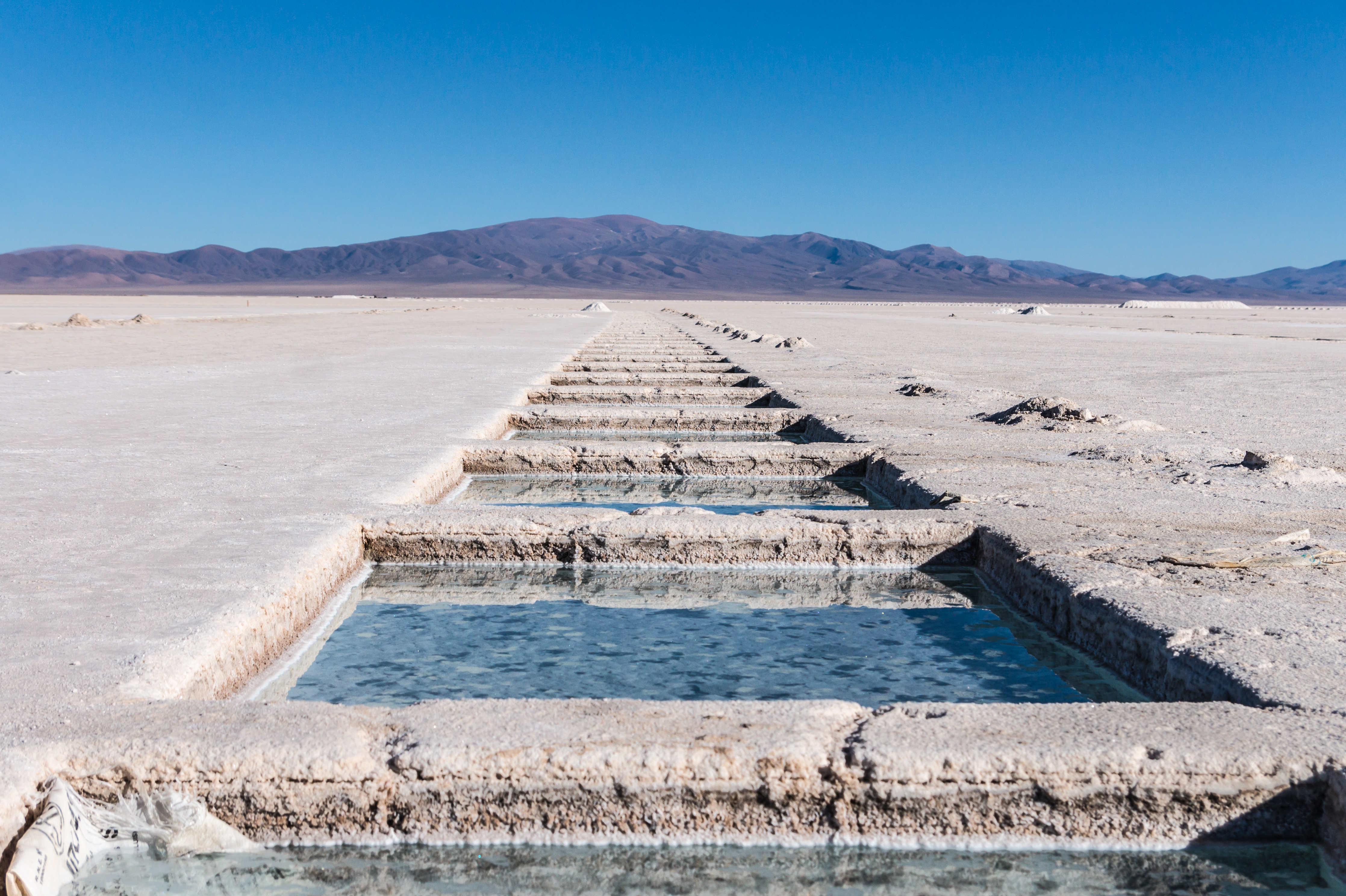 Pools in Salinas Grandes, Argentina.